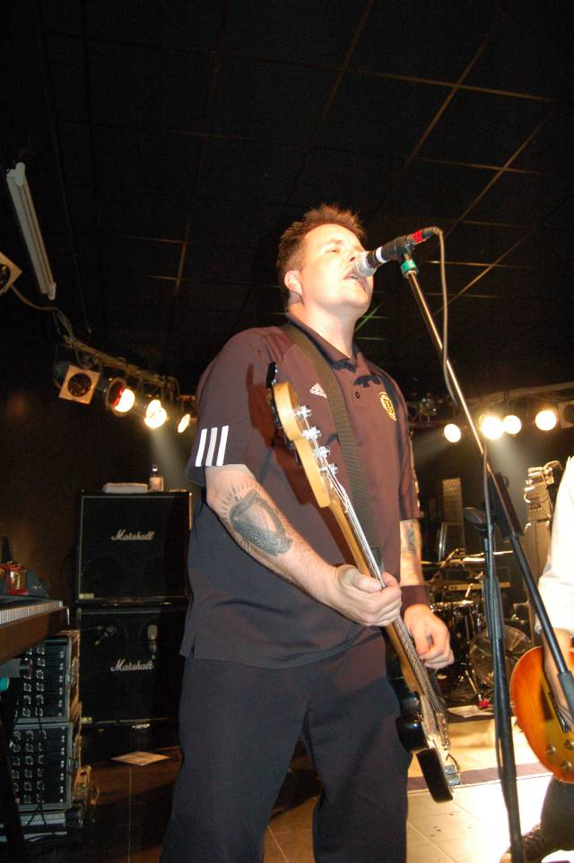 Dropkick Murphys credits : Giò-S.p.o.t.s.